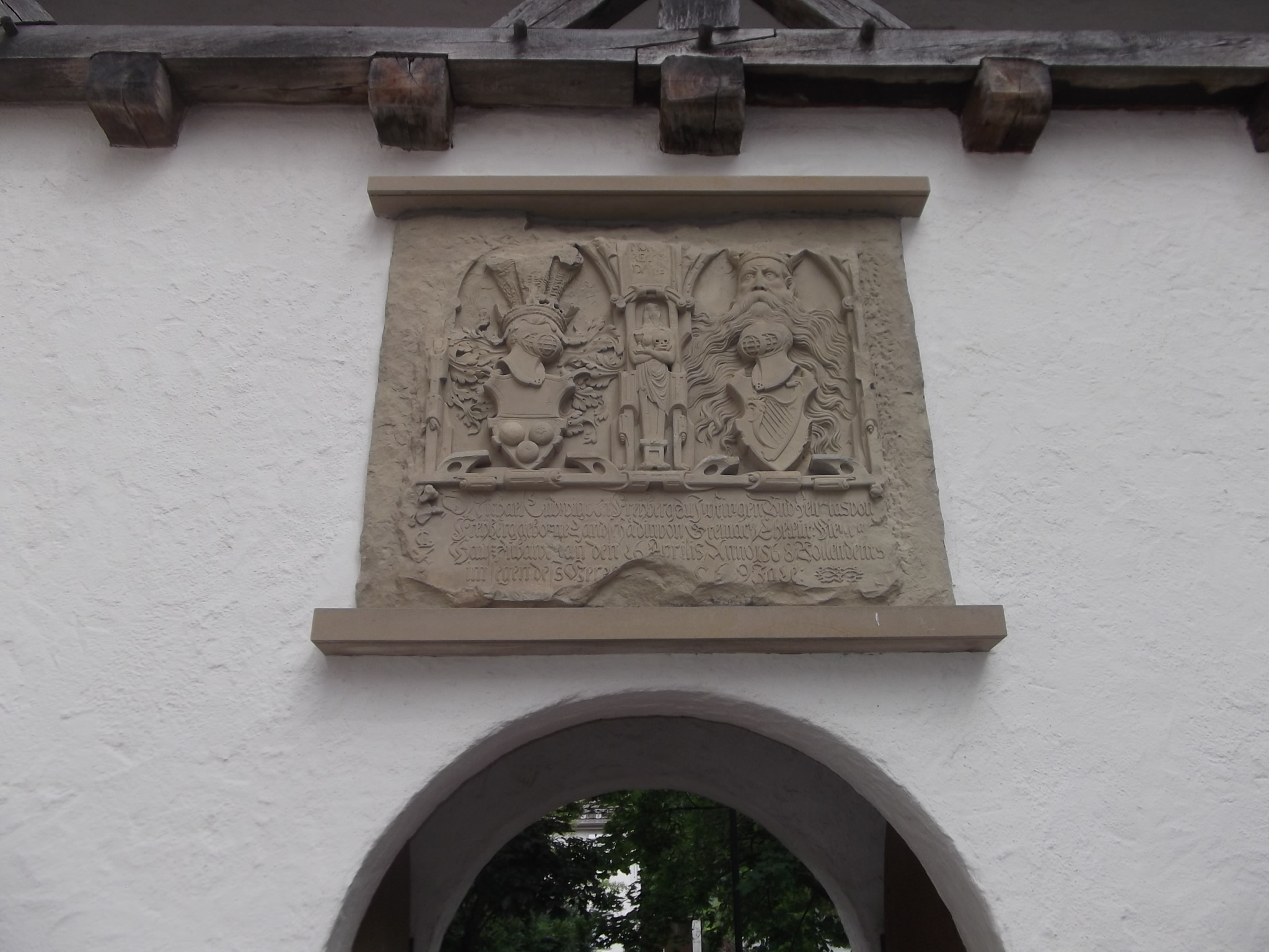 Justingen castle, former construction inscription above the entrance to the inner castle. In the center caryatid with death's-head and hourglass. Lefthand coat of arms of Freyberg, righthand Landschad of Steinach. Below the family coat of arms are four text lines: „Michael Ludwig of Freyberg, residing in Justingen, and Felicitas of Freyberg née Landschad of Steinach, a married couple, started to newly construct this house on the 26th April anno 1568, and completed it in 1569 with the help of God.“ Lefthand below the sculptor's monogram "G. L.".